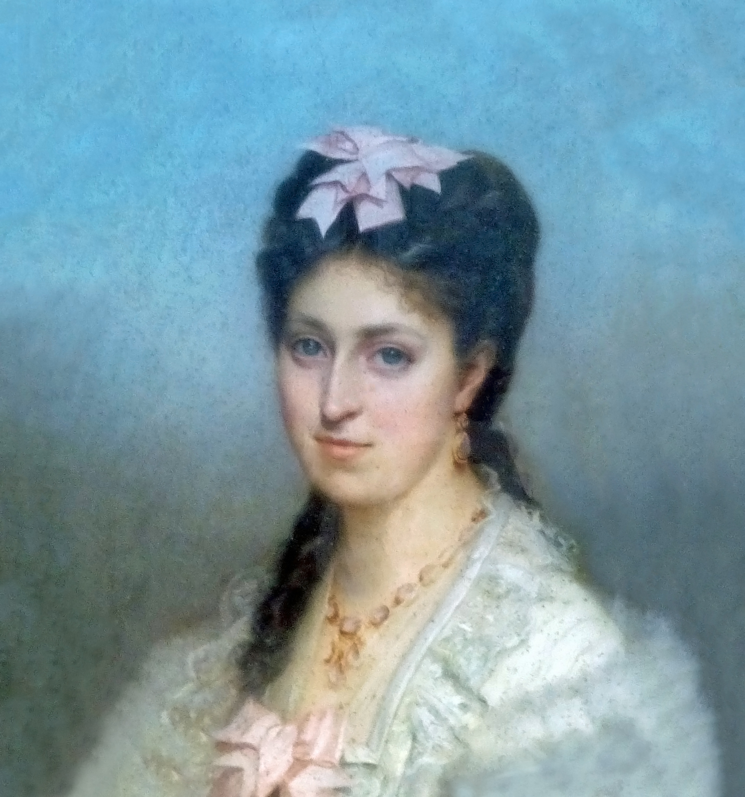 Portrait de Mathilde de Monléon (1850-1926) qui hérita du château d'Alphéran au XIXe siècle